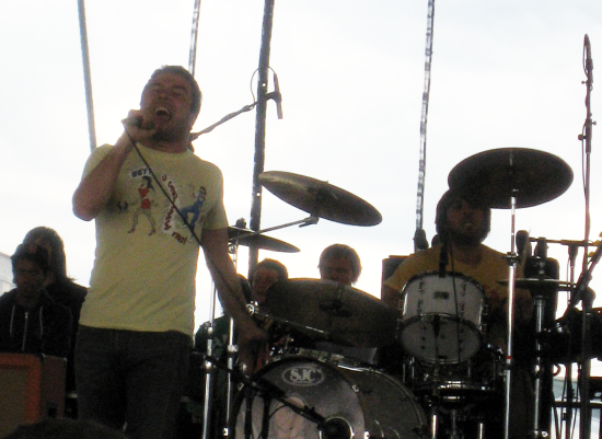 Max Bemis and Coby Linder of Say Anything. Taken at Warped Tour (Darien Lake) on July 24, 2008.